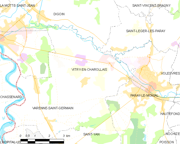 Map of French municipality